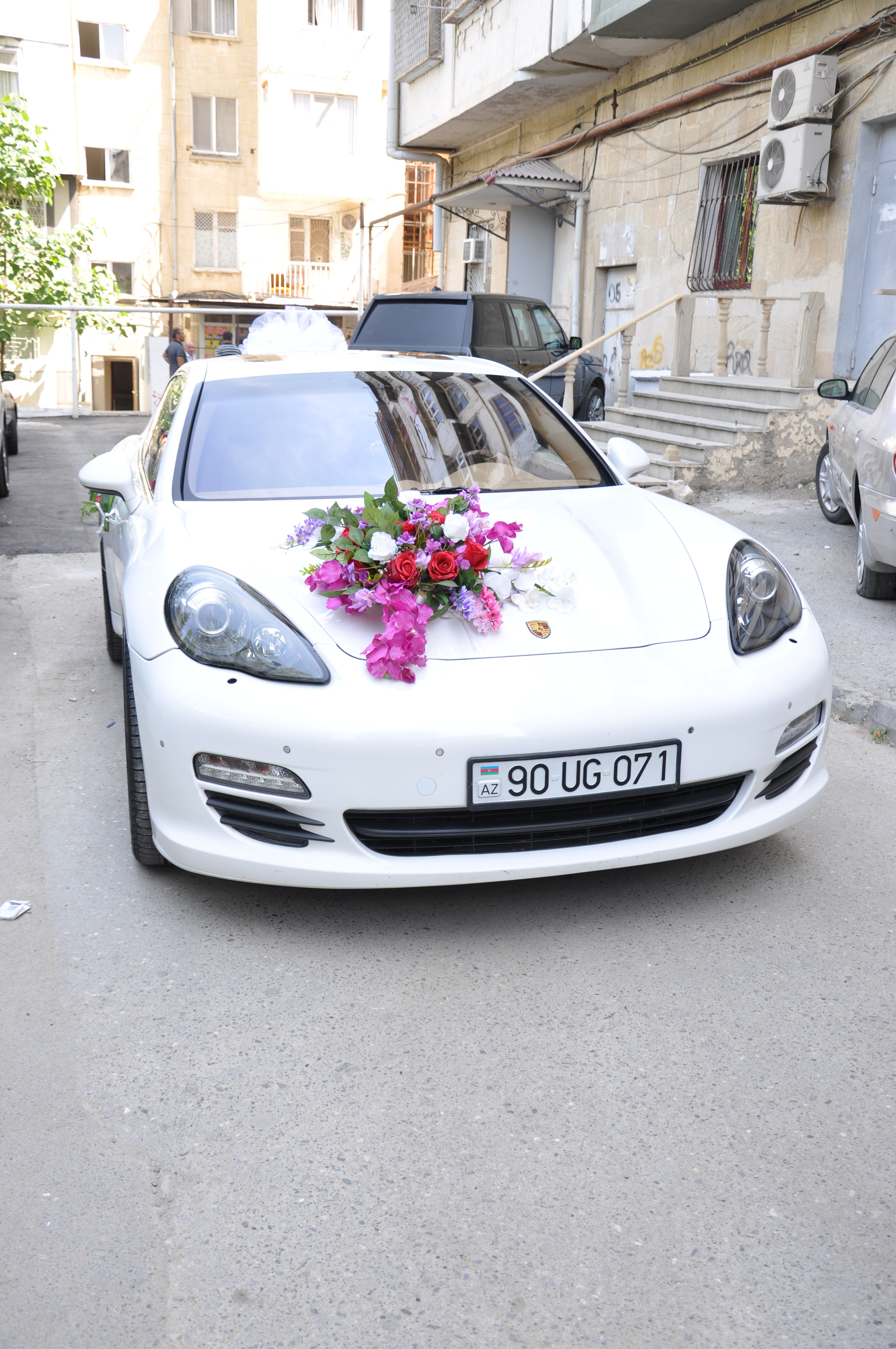 Modern wedding car in Baku